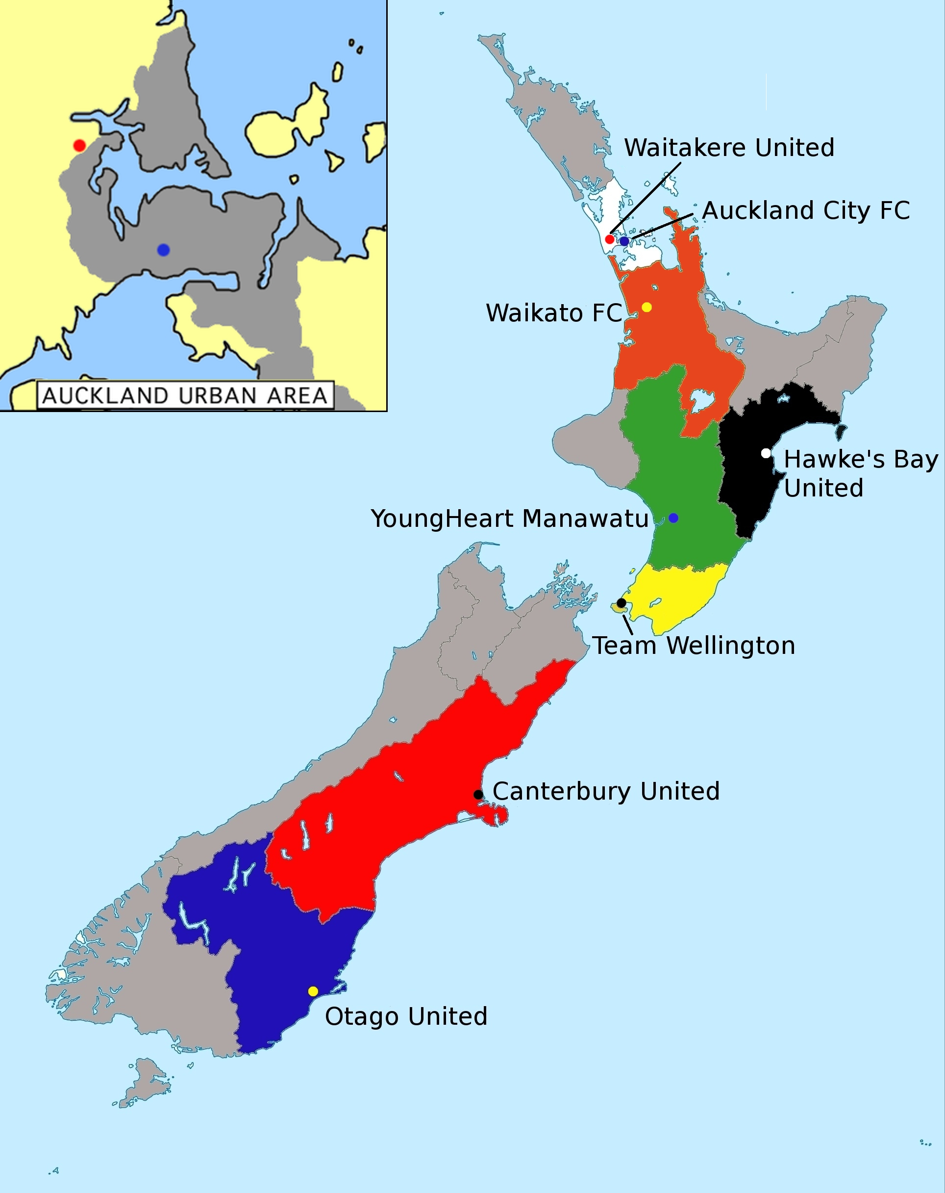 New Zealand map of the locations of New Zealand Football Championship clubs and the regions they represent